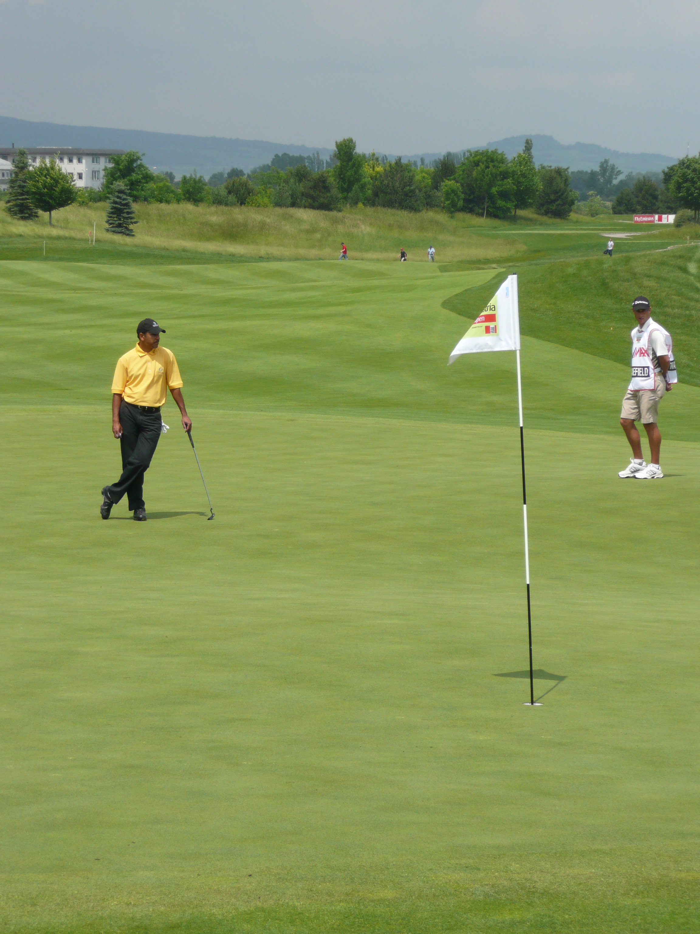 The winner Jeev Milkha Singh (in yellow shirt) playing at the 2008 Bank Austria GolfOpen presented by Telekom Austria (European Tour) at Golfclub Fontana.